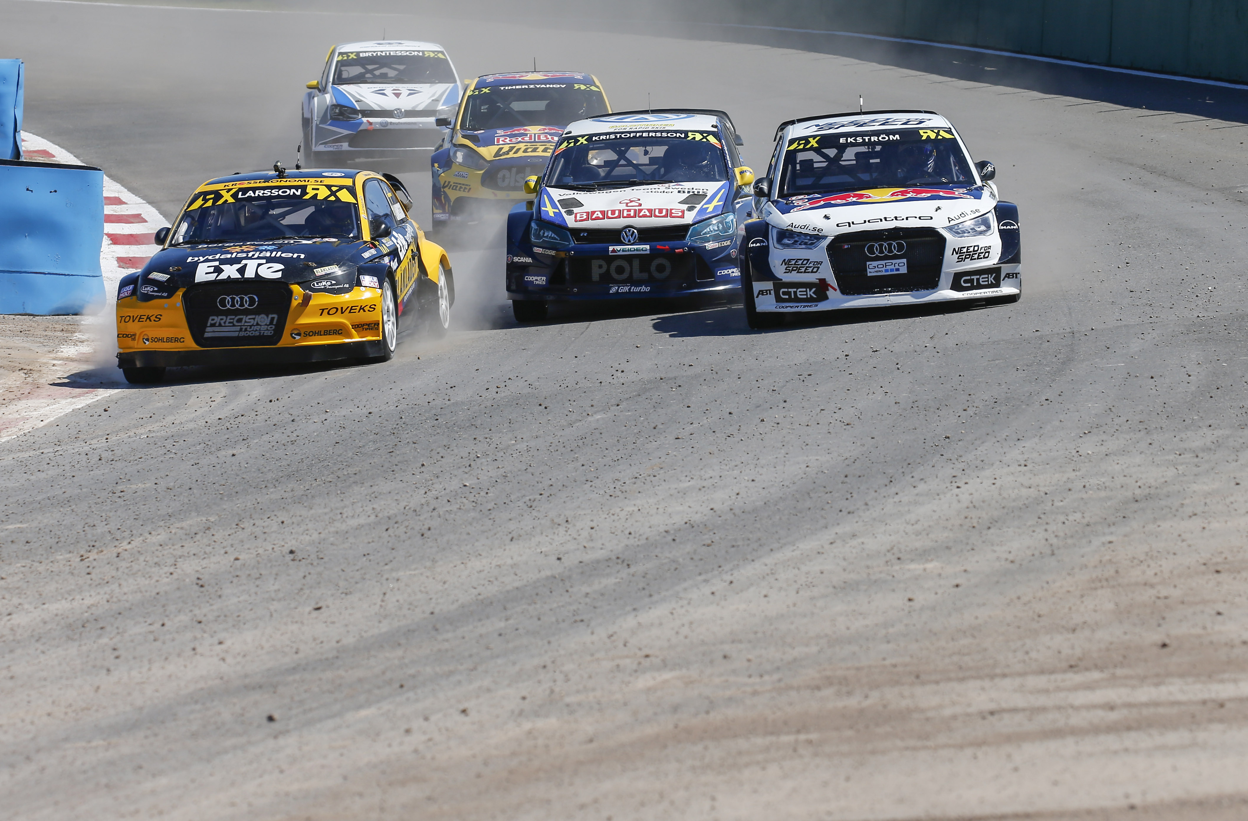 2015 FIA World Rallycross Championship // Round 13 // Rosario, Argentina // 27-29 November, 2015 // Worldwide Copyright: EKS/McKlein